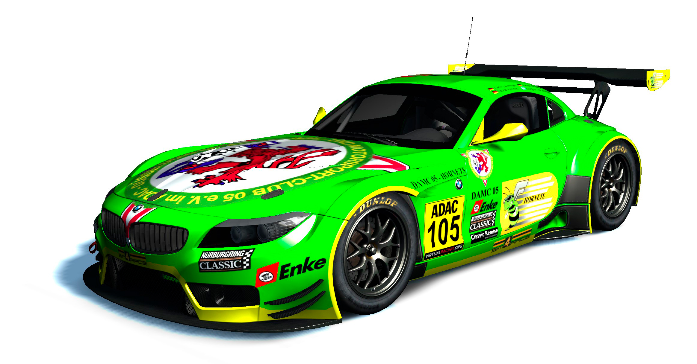 Generated Esports racing car for Assetto Corsa of German SimRacing team DAMC 05 during ADAC-Digital-Cup, winter season 2019/2020, BMW Z4 GT3